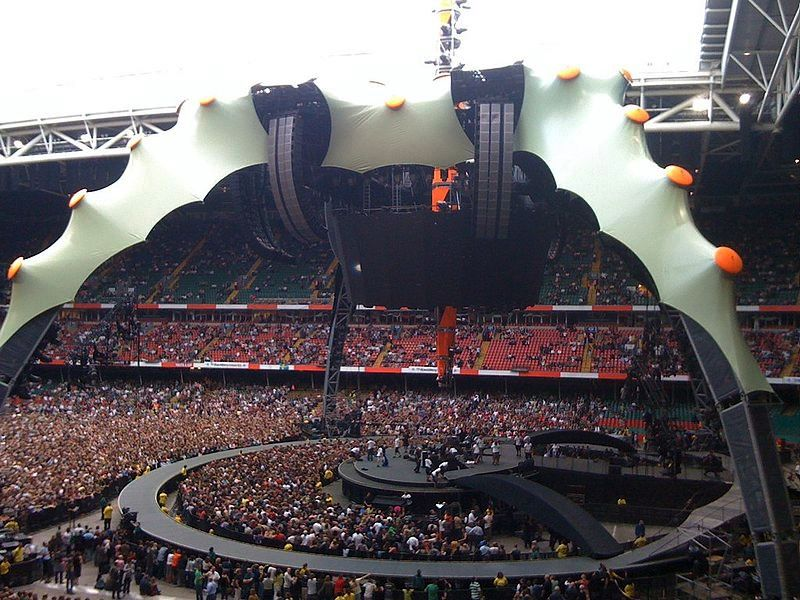 U2 360° Tour at the Millennium Stadium, Cardiff, Wales